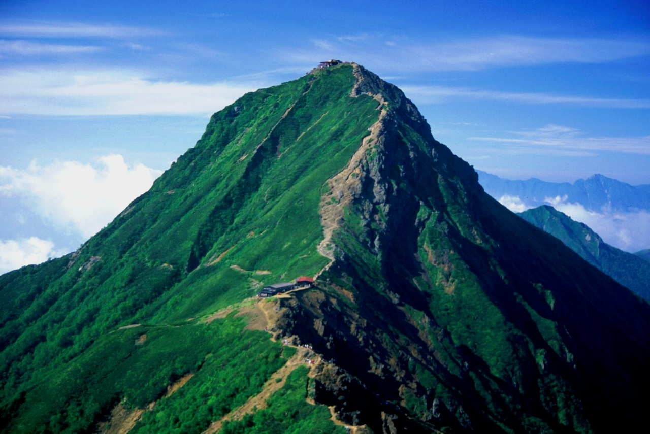 Mount Aka from_Yokodake_1997-8-3